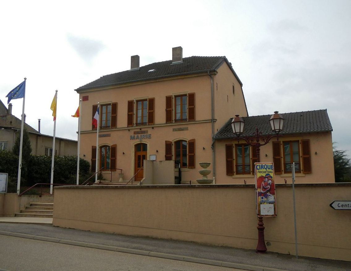 Town hall of Puttelange-les-Thionville, Lorraine, France.